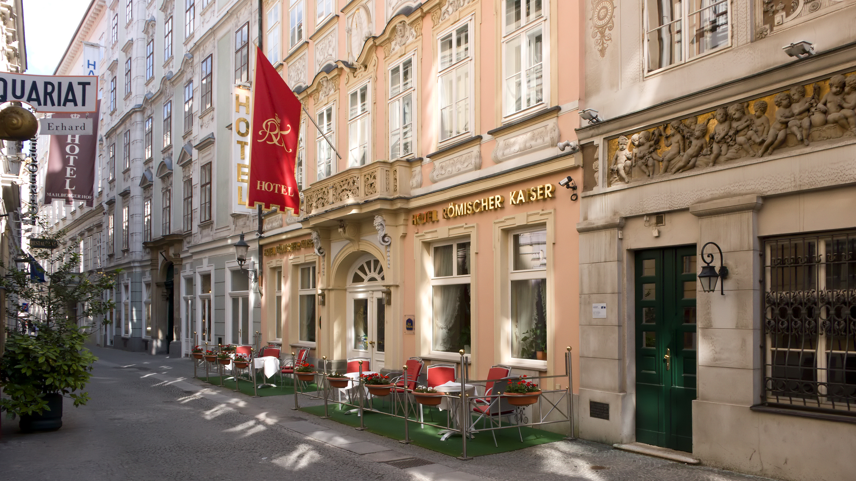 Annagasse in Vienna Inner City, Haus Nr.16 Hotel „Römischer Kaiser“